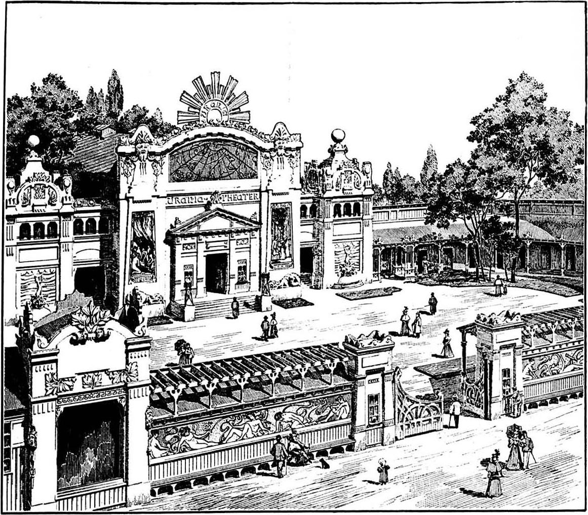 Urania-Theater at the Jubiläumsausstellung, Vienna. 1898.